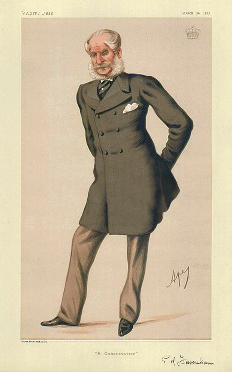 Statesmen No.269: Caricature of Lord Feversham. Caption reads: "a Conservative"